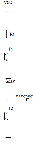 A totem-pole, or push-pull, output from an electrical circuit that can be used within the transistor-transistor section